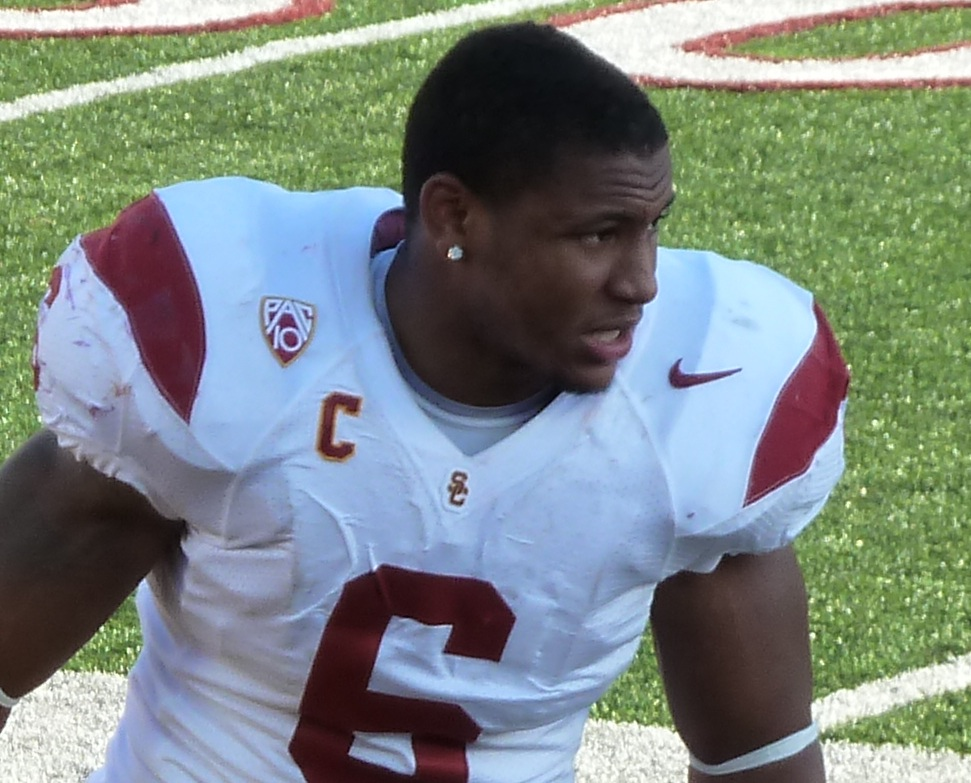 Linebacker Malcolm Smithduring a game in the 2010 USC Trojans football season.